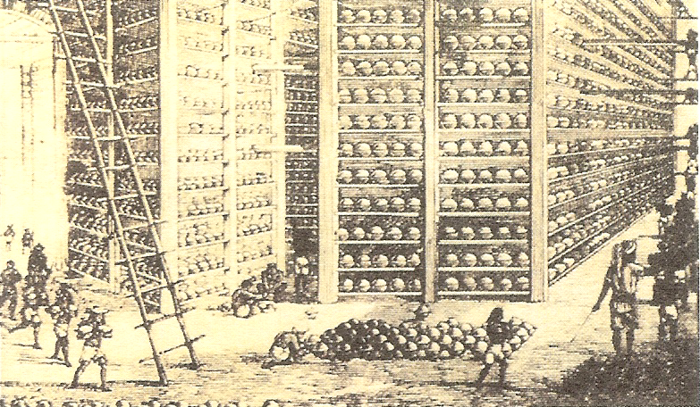 British East India Company storage of opium.